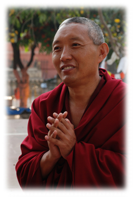 This is an image of Geshe Tashi Tsering, resident Geshe at Jamyang Buddhist Centre london.